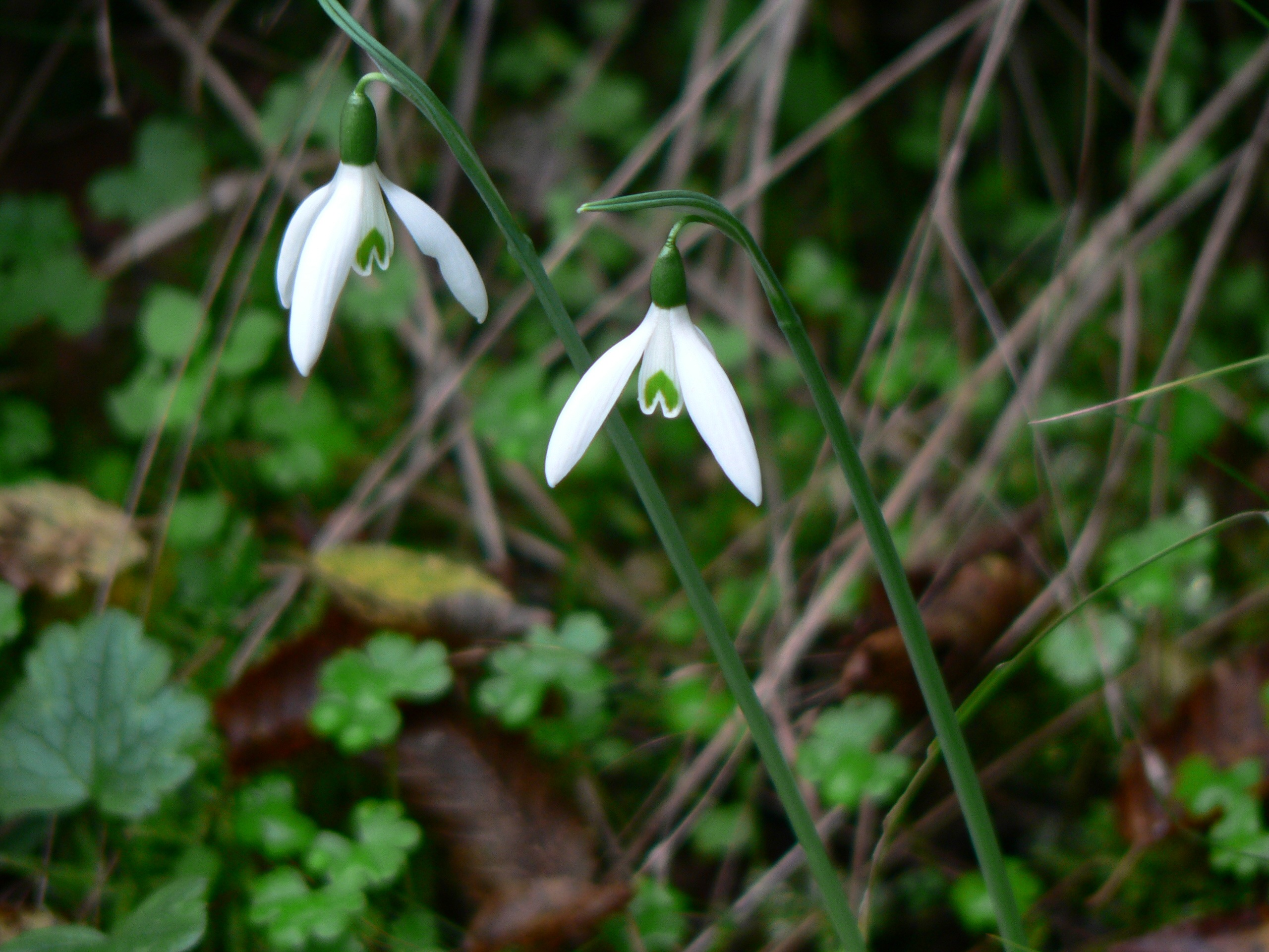 Galanthus reginae-olgae, flowering late October. Image taken near Katarraktis, Ioannina, Epirus, northern Greece, on 26/10/2008. As is typical for the species, no leaves were apparent at the time of flowering.